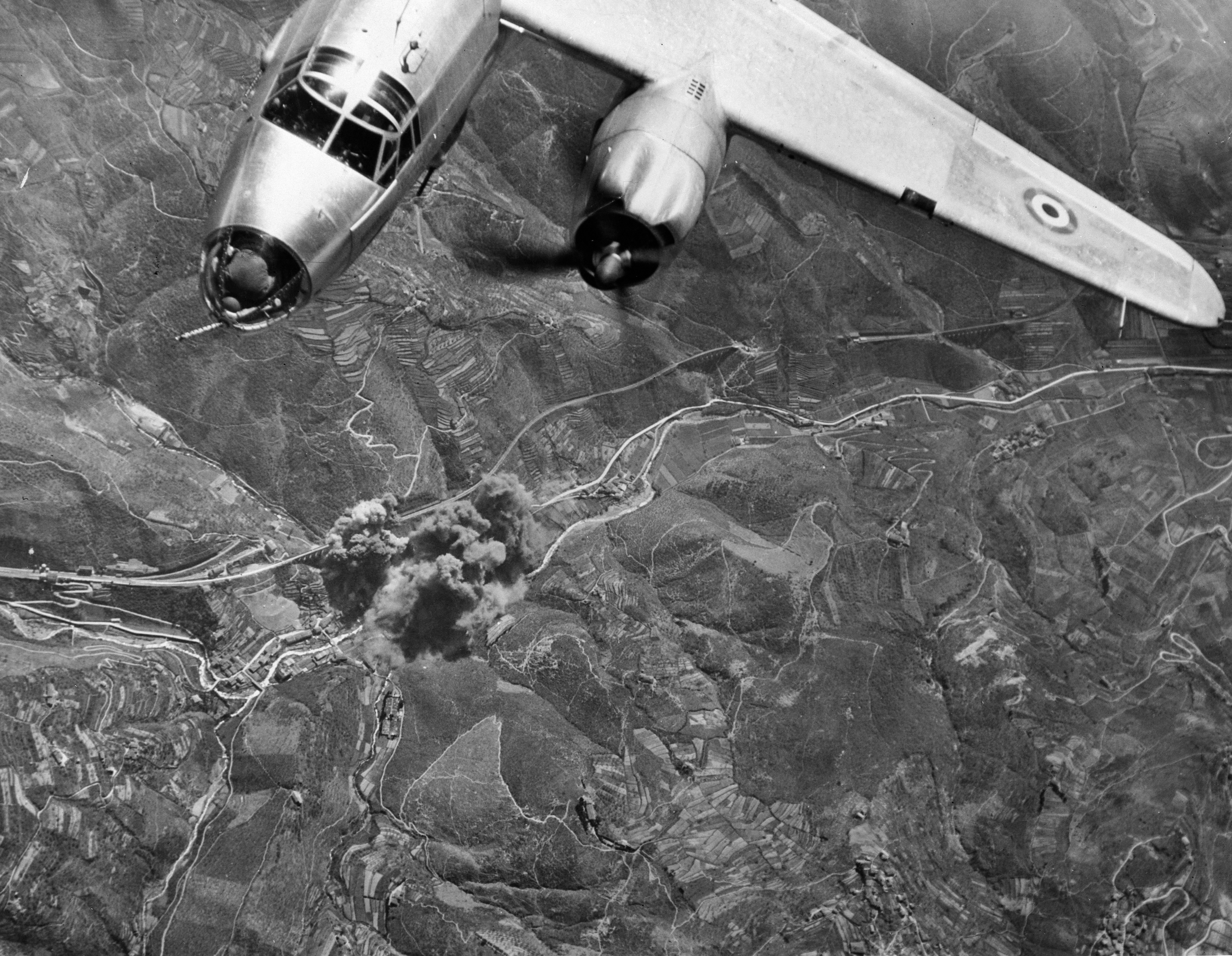 TITLE: French airmen hit a pinpoint target. Flying with the Mediterranean Allied Air Forces under the tri-color of France, the Frenchment split a vital rail bridge, 600 feet long and 15 feet wide, at the Piteccio viaduct in central Italy. On the wing of the American-made B-26 bomber may be seen the roundel of the French Air Force CALL NUMBER: LC-USW33- 054427-ZC [P&P] REPRODUCTION NUMBER: LC-USW33-054427-ZC (b&w film neg.) MEDIUM: 1 negative ; 5 x 7 inches or smaller. CREATED/PUBLISHED: [between 1940 and 1946] NOTES: Title and other information from caption card. Transfer; United States. Office of War Information. Overseas Picture Division. Washington Division; 1944. SUBJECTS: Italy. FORMAT: Film negatives. PART OF: Farm Security Administration - Office of War Information Photograph Collection (Library of Congress) REPOSITORY: Library of Congress Prints and Photographs Division Washington, D.C. 20540 DIGITAL ID: (digital file from intermediary roll film) fsa 8e02454 CONTROL #: owi2002049829/PP